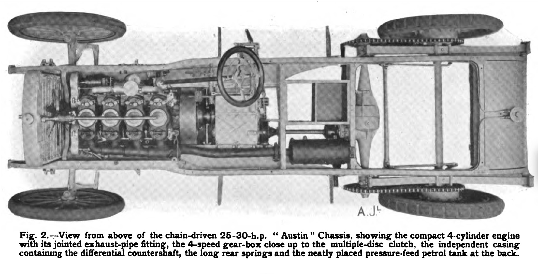 1906 Austin 25-30 chassis top view